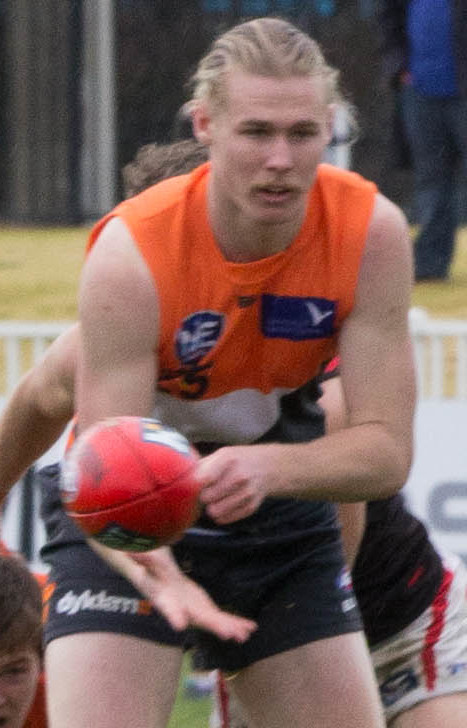 Cam McCarthy hand passes to Jake Barrett during the UWS Giants vs. Eastlake NEAFL match at Robertson Oval on 1 August 2015.